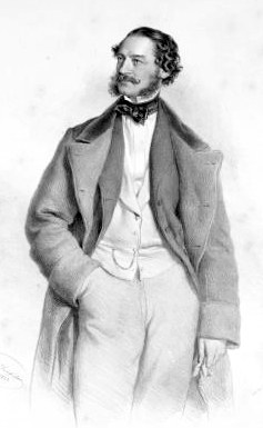 Paul Taglioni (1808-1884) by Joseph Kriehuber (1800-1876).